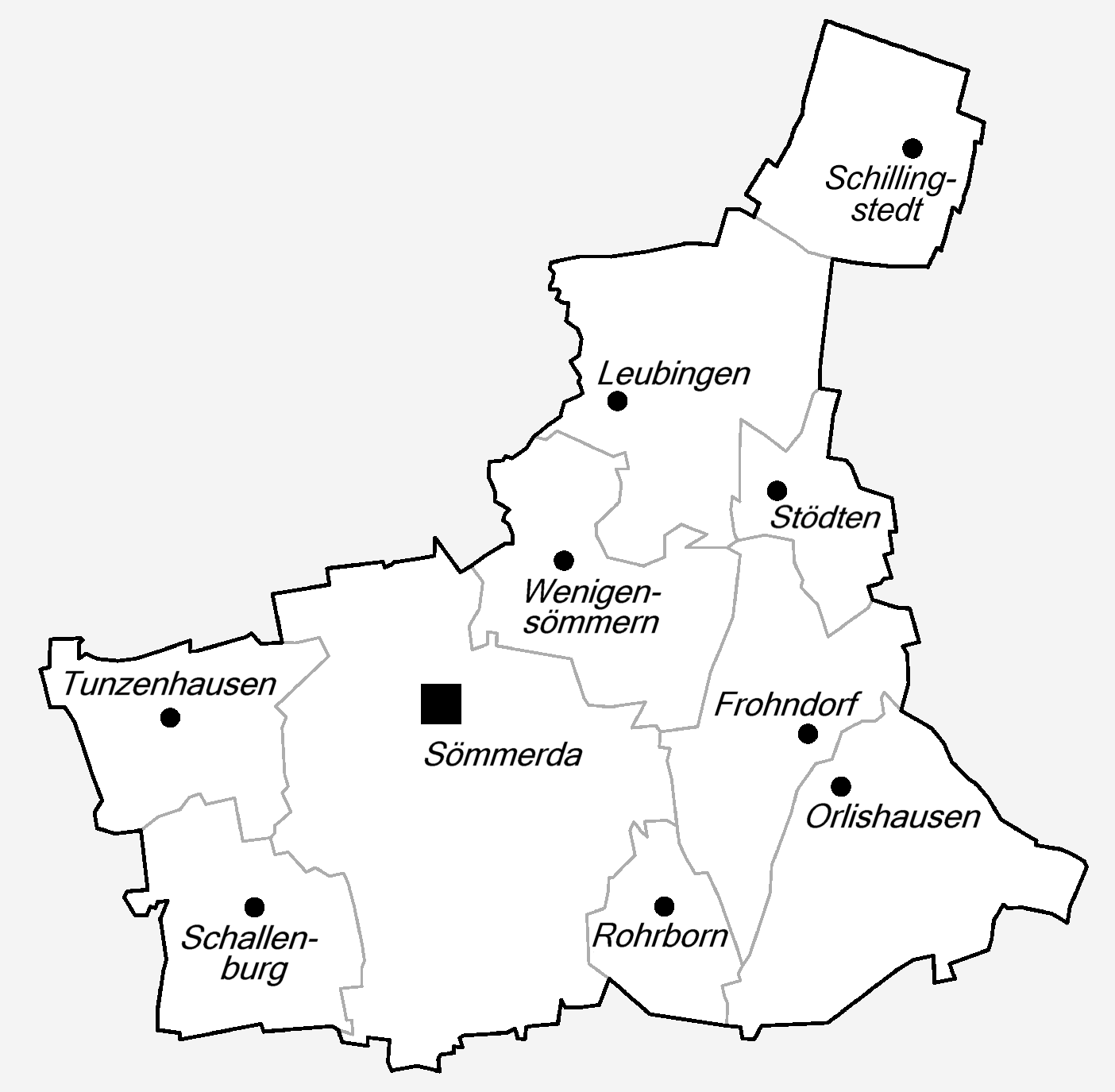 District-Map of Sömmerda.